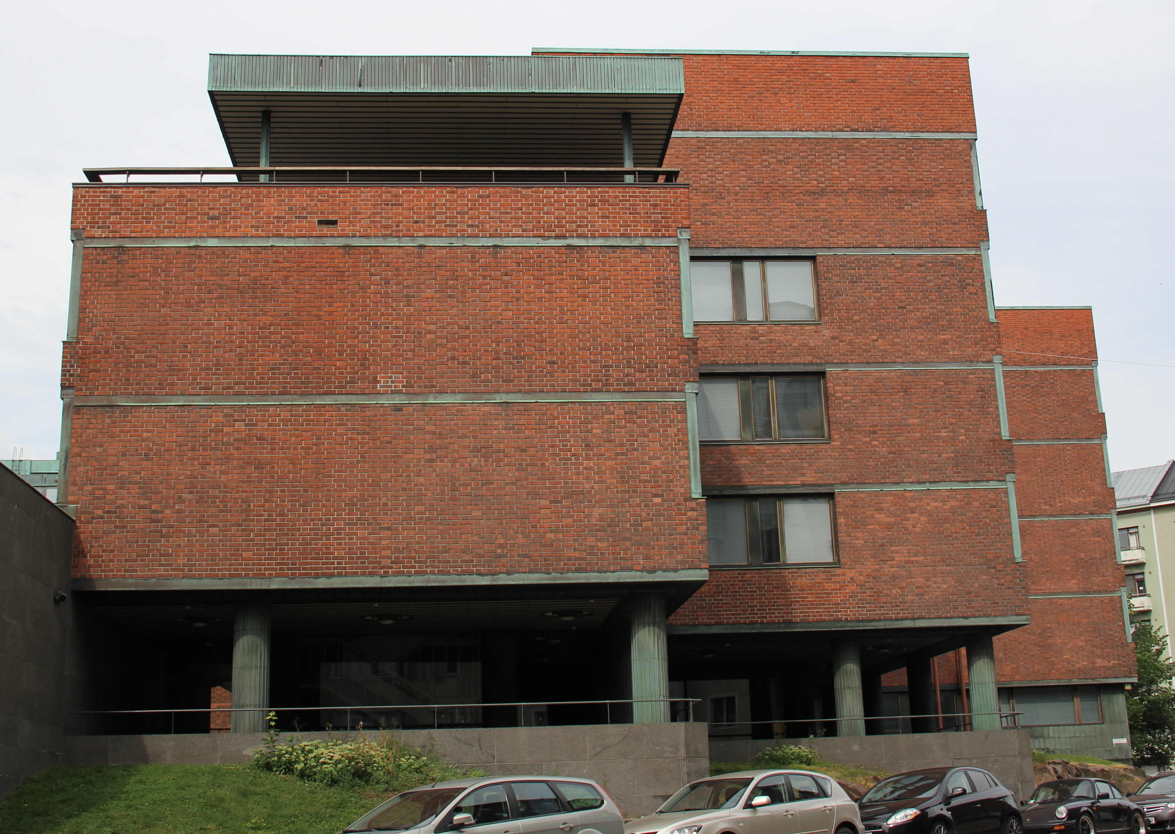 Kansaneläkelaitos headquarters, Taka-Töölö, Helsinki, Finland. Designed by Alvar Aalto, completed in 1956. - Southern facade, towards Nordenskiöldinkatu.